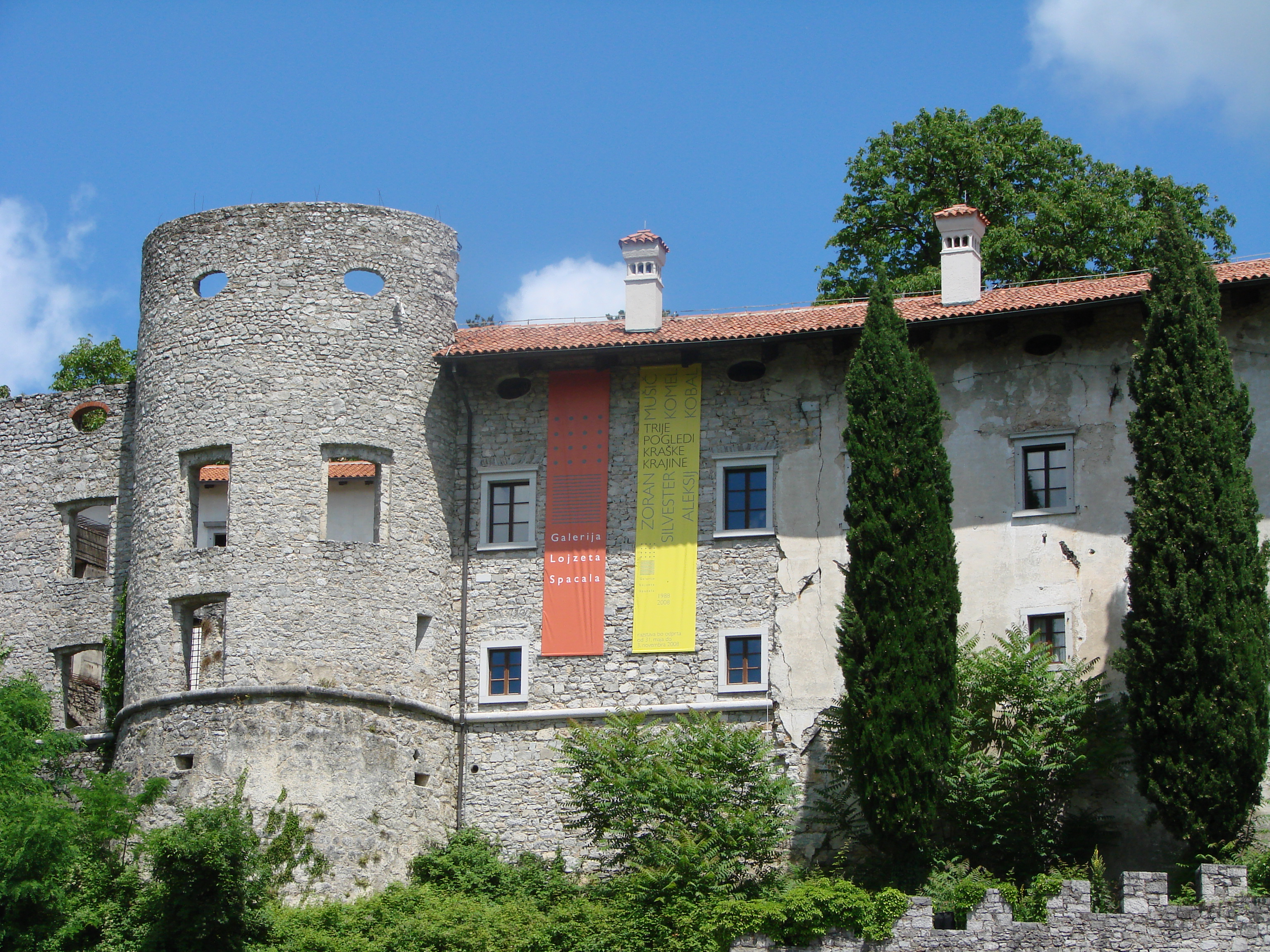 Castle in Štanjel, Kras, Slovenia.